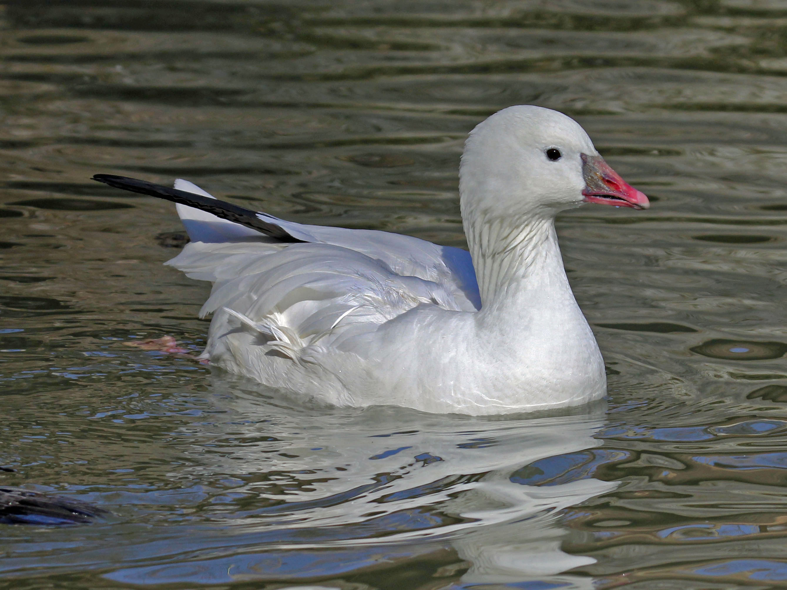 Ross's Goose (Chen rossii) - Sylvan Heights Waterfowl Park, Scotland Neck, North Carolina